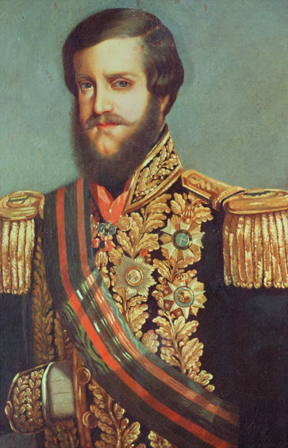 A young Dom Pedro II, emperor of Brazil.